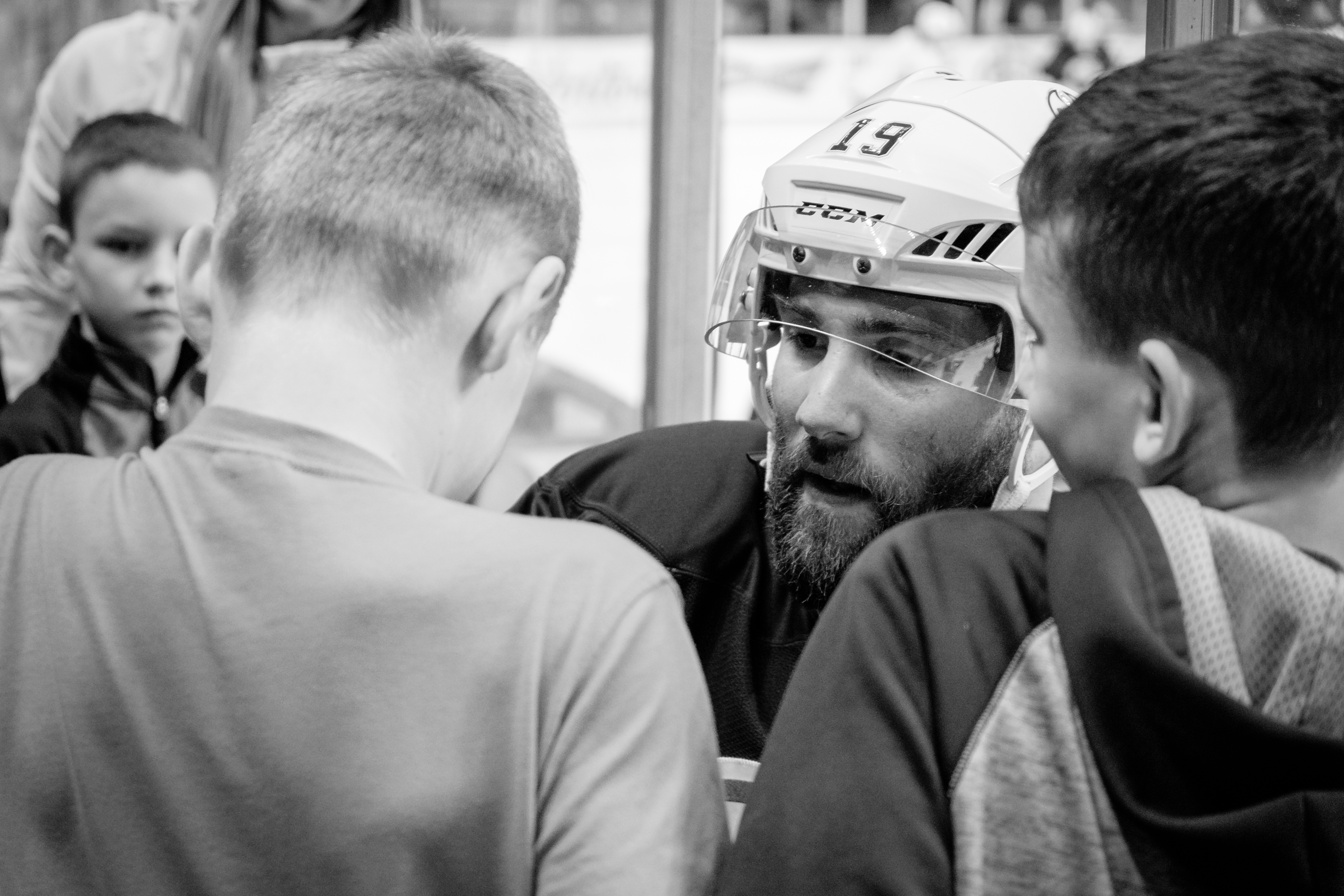 Maroon Signs Autographs